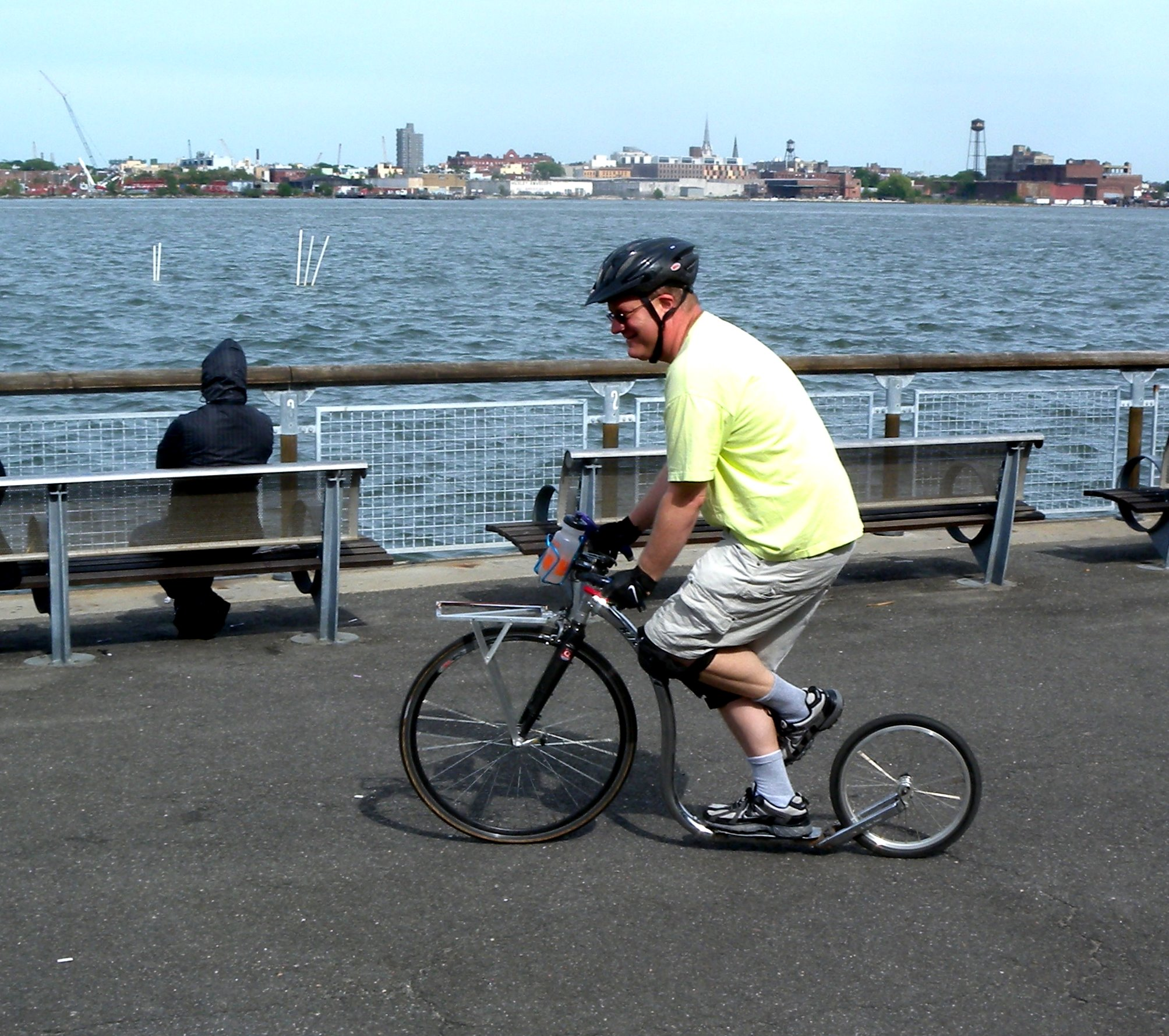 Looking east at Kickbike being ridden on a sunny early afternoon.